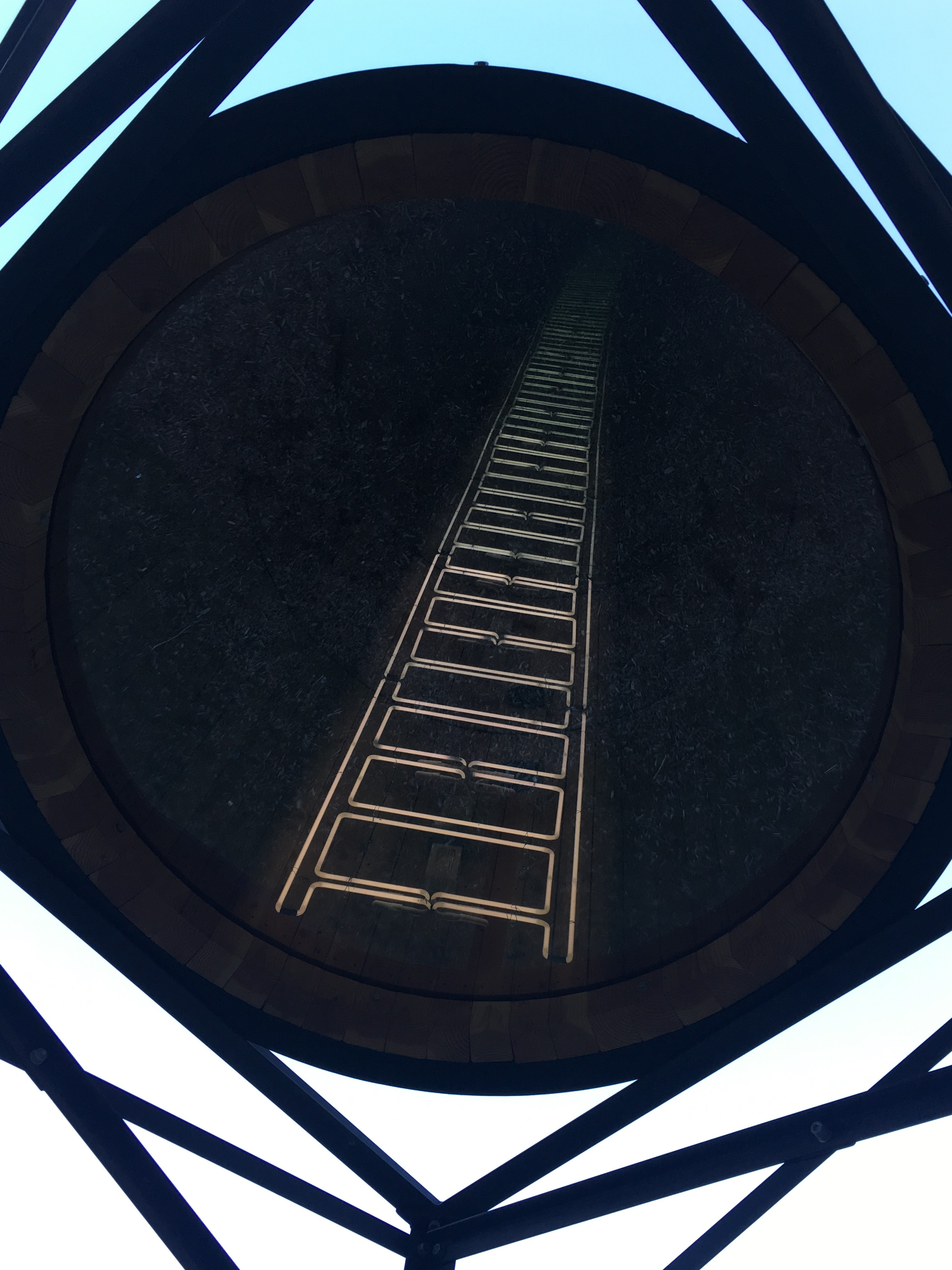 Ladder (Water Tower) 2014 from "This Land is Your Land" by Ivan Navarro